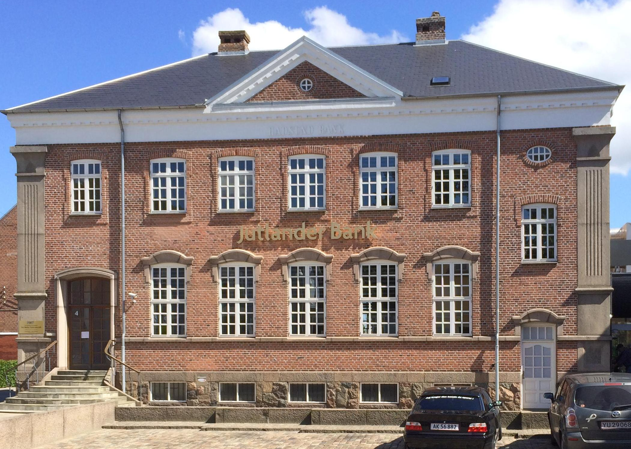 Hadsund Bank building seen from the front. The building is located on Main Street in town.